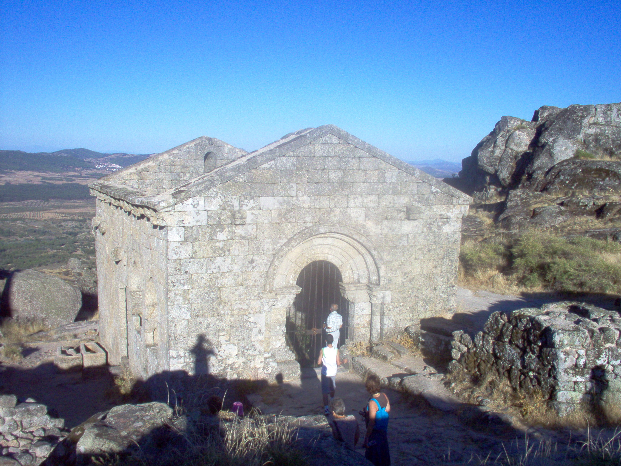 Church of Saint Michael, Castle of Monsanto, district of Castelo Branco